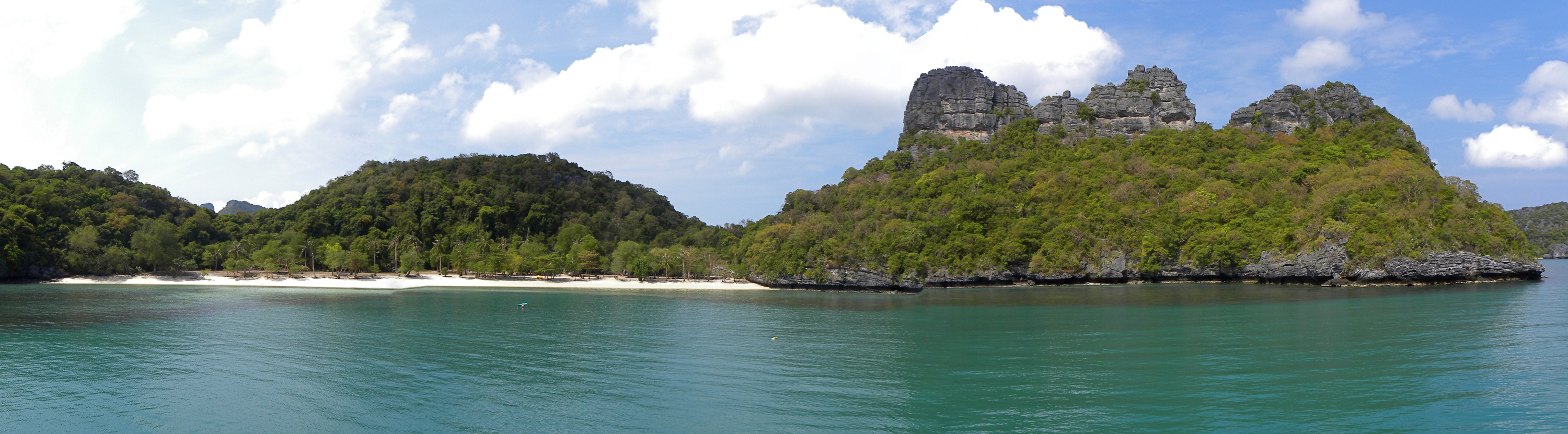 Panorama of a beach of Ko Mae Ko (Ang Thong National Park)